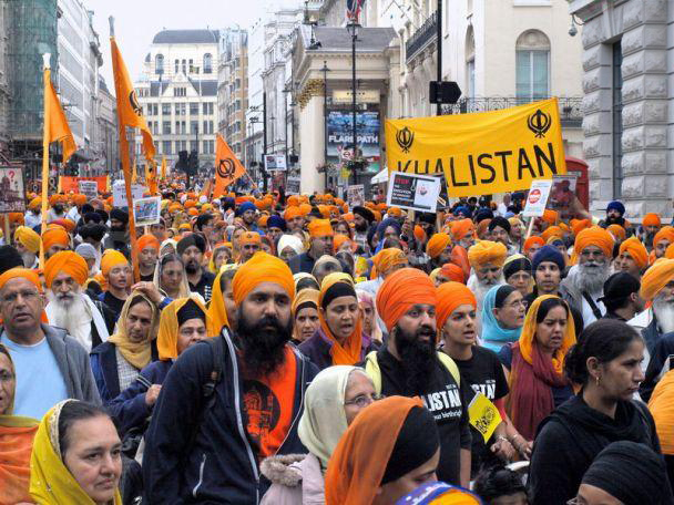 Sikhs Protest against India for separate homeland.